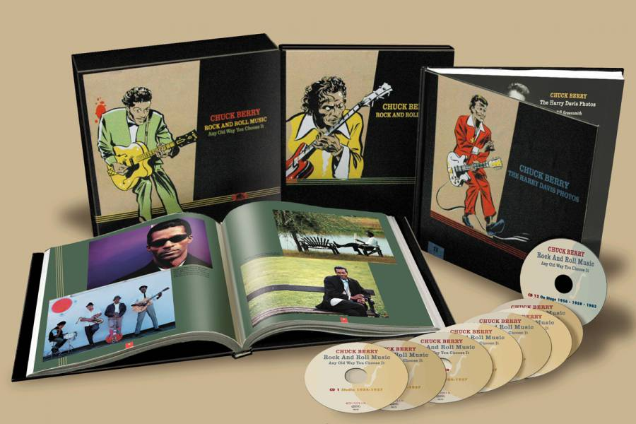 Chuck Berry - Rock And Roll Music - Any Old Way You Choose It - The Complete Studio Recordings